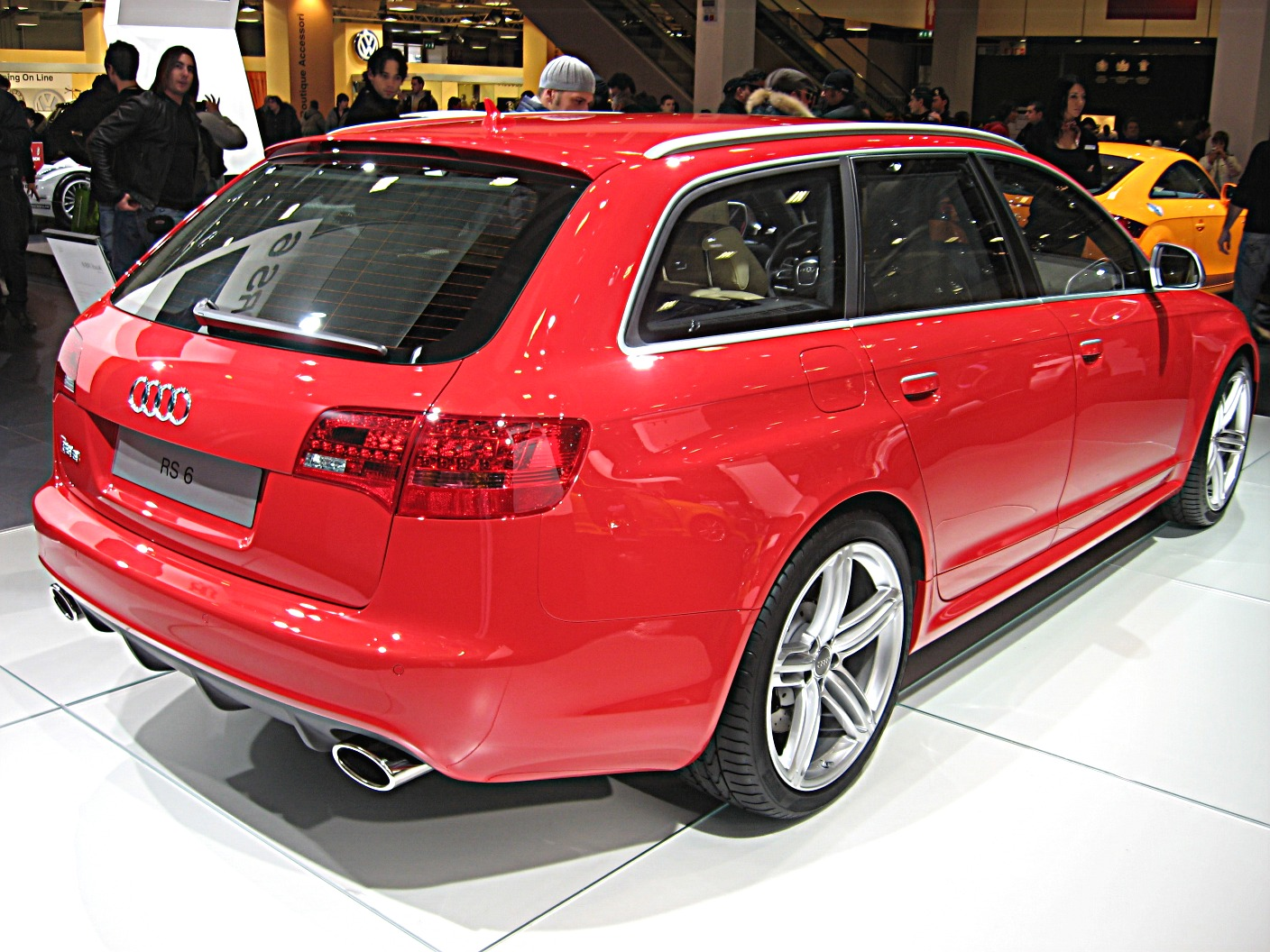 Subject:Audi RS6 Author:Luc106 Date:December 13th, 2007 Event:Motor Show Bologna 2007 Place/Country: Bologna, Italy I release all rights in the public domain.